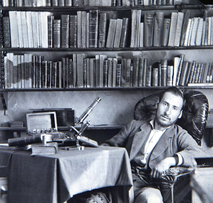 Ramón y Cajal in Zaragoza, Spain (ca.1870), auto-portrait.